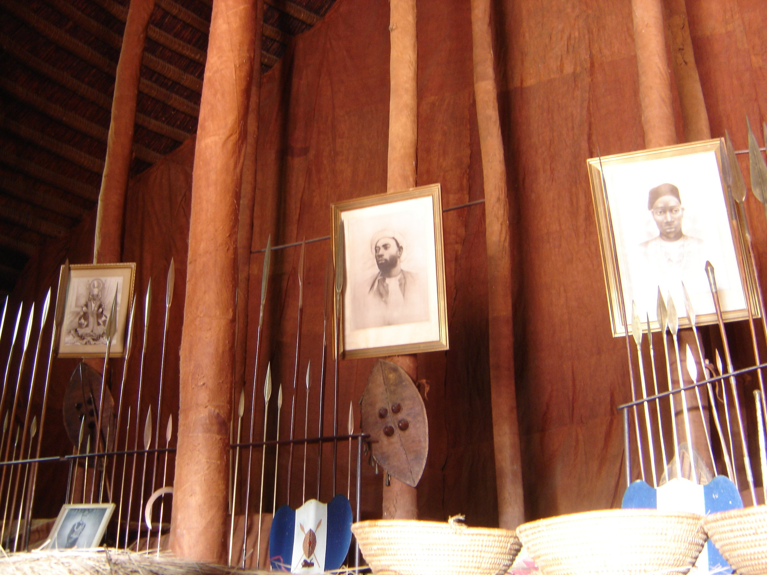 These are the burial grounds of Kampala's old kings. The actual shrine is off-limits for non-royal family.